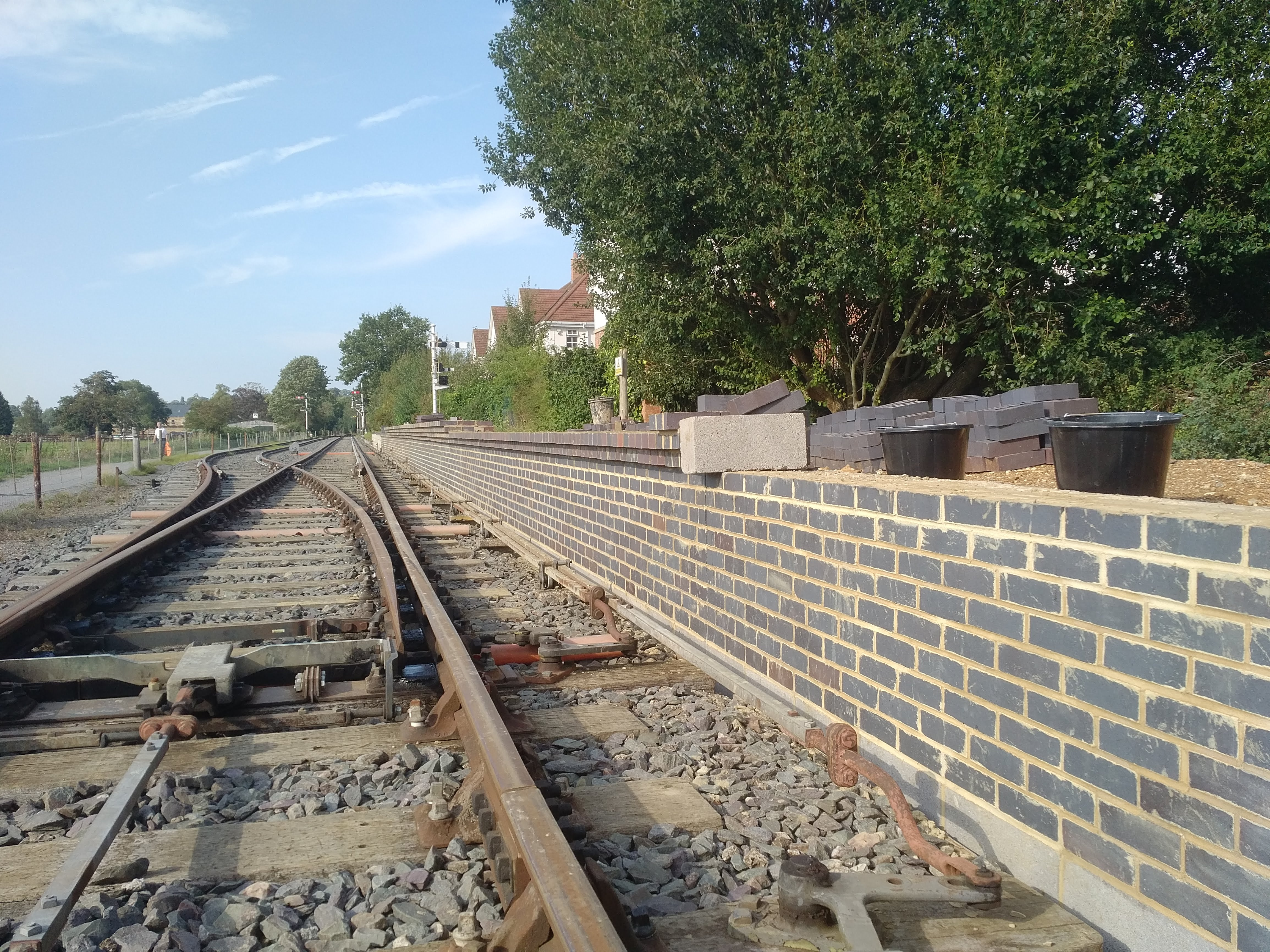 The platform of Boughton railway station under construction in August 2019. This is the planned terminus of Northampton & Lamport Railway.